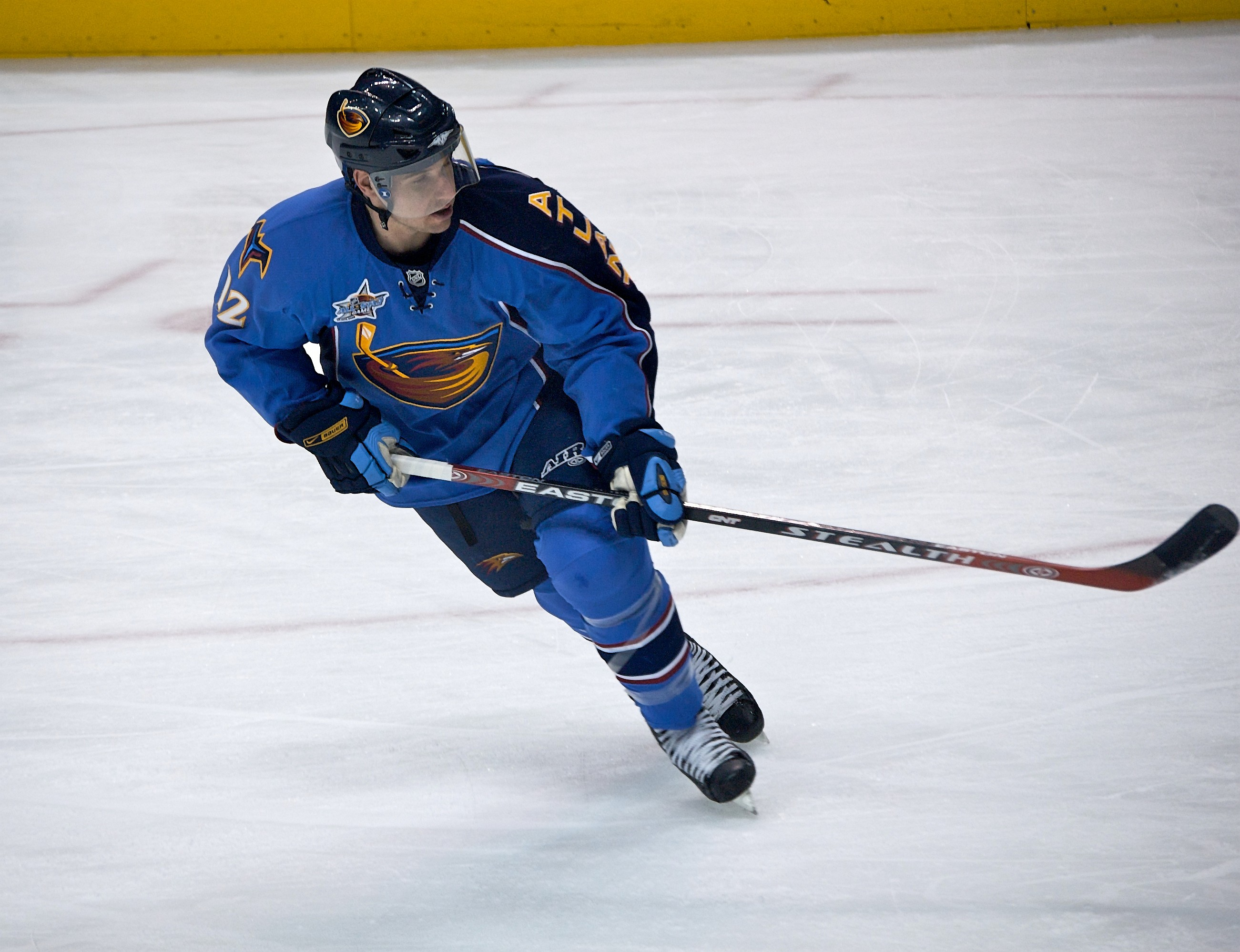 Todd White during the warm-up at the Thrashers-Capitals game in Atlanta on February 13, 2008.